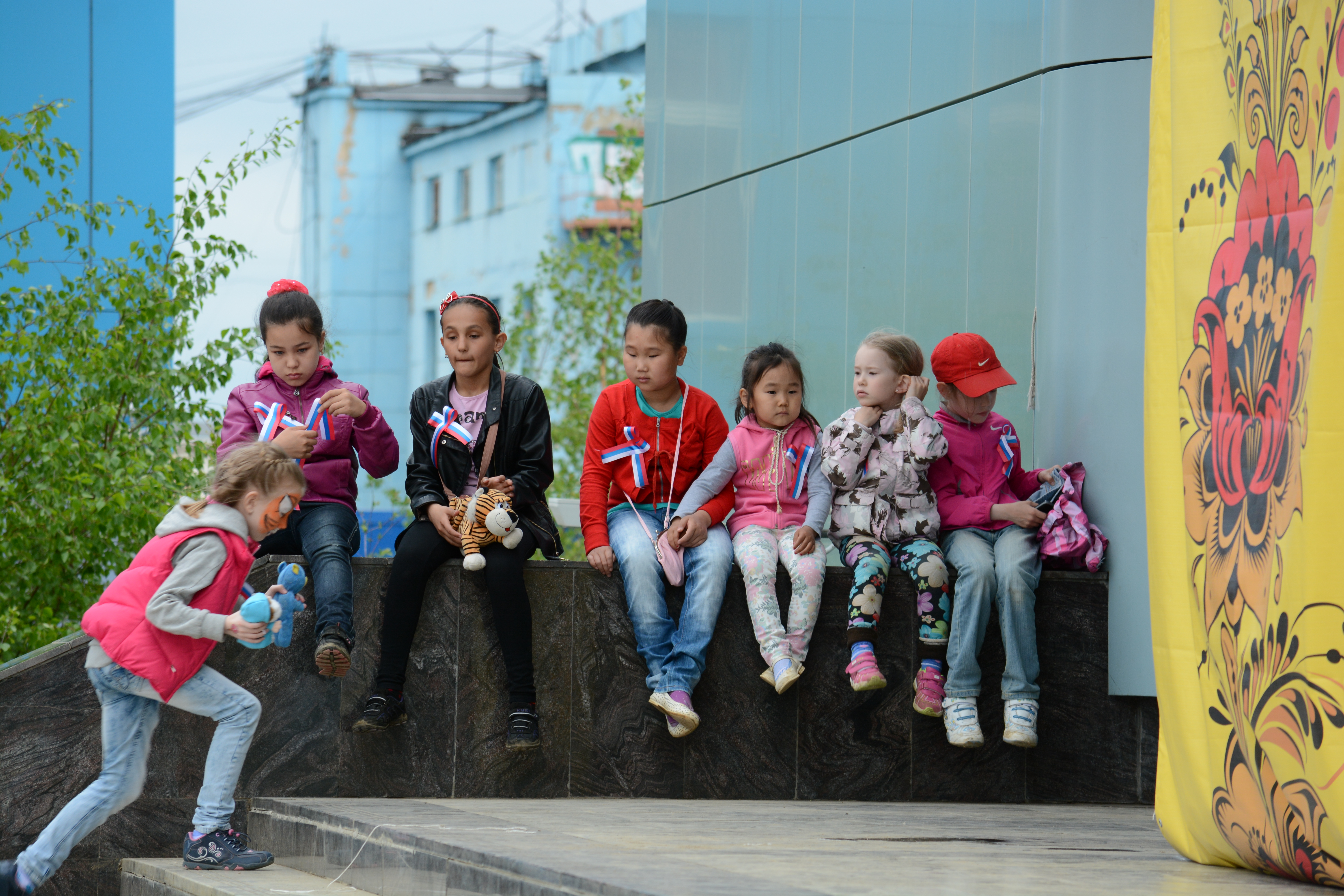 Russia Day in Mirny, Sakha Republic (2014-06-12)